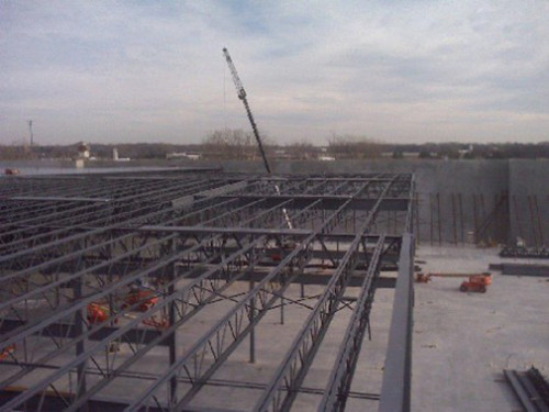 A manufacturing facility in Midland, Michigan being erected.